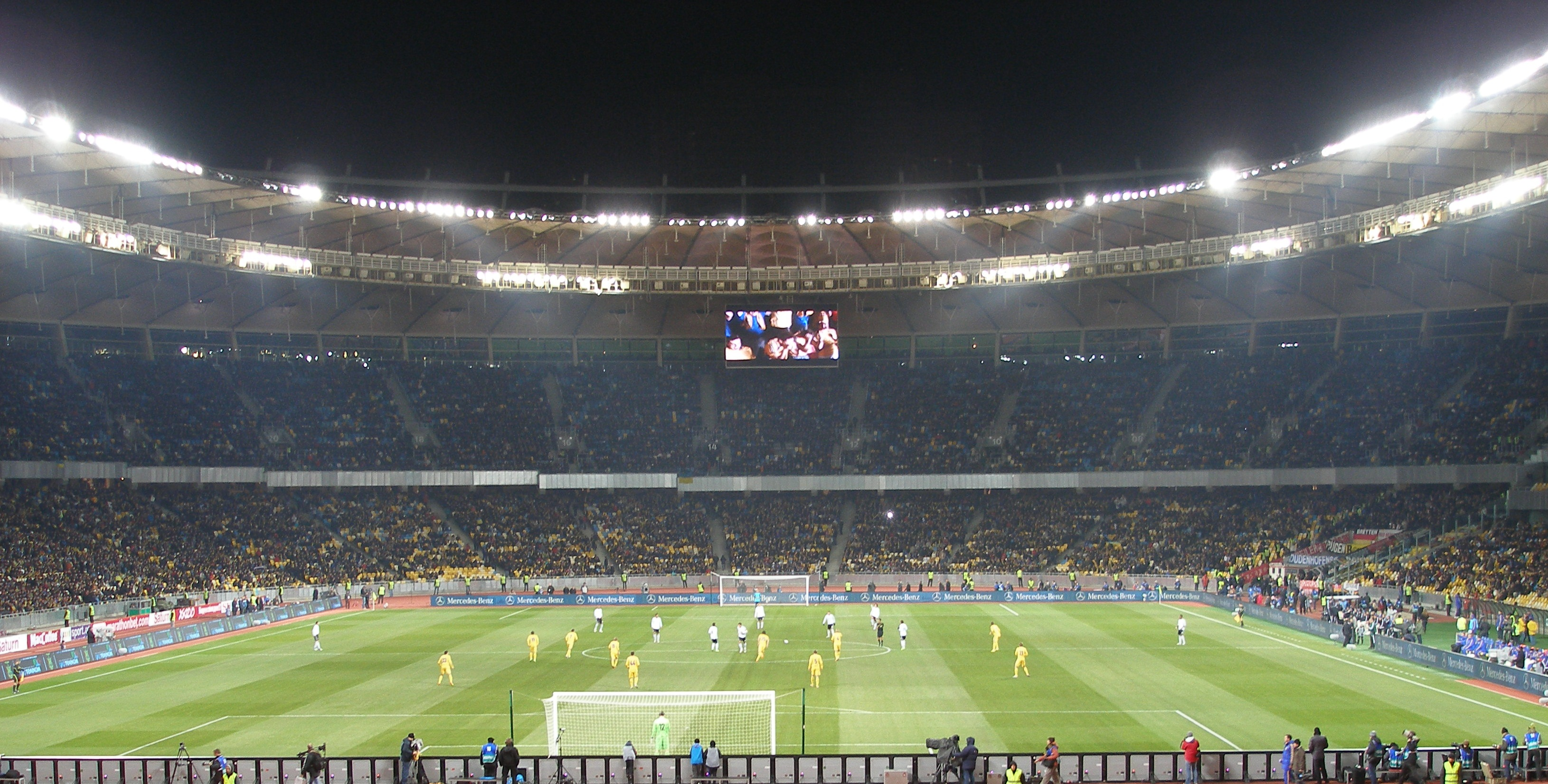 Interior of stadium in Kiev